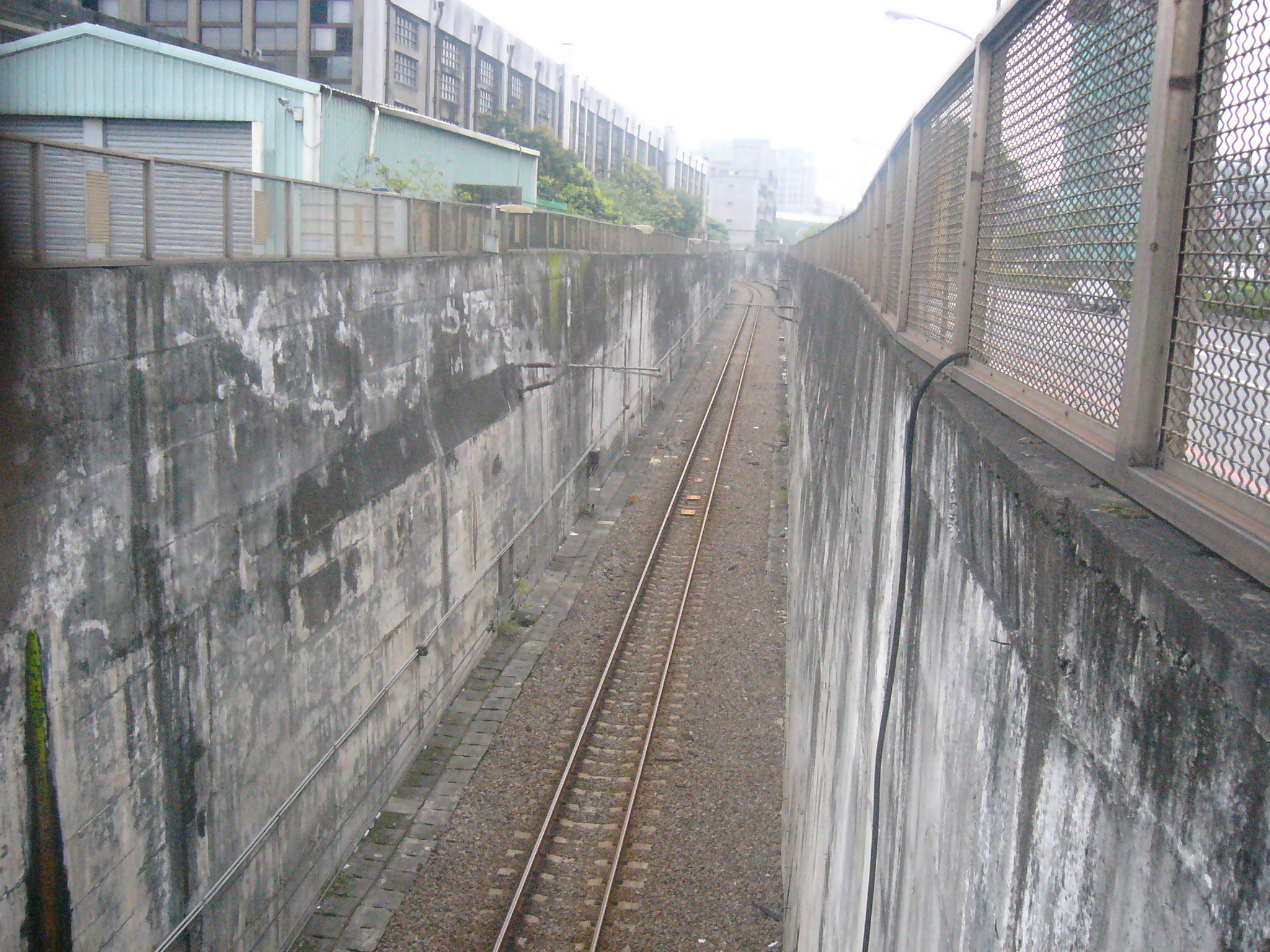 Taiwan Railway Administration Taipei Workshop rail vehicle Entrance